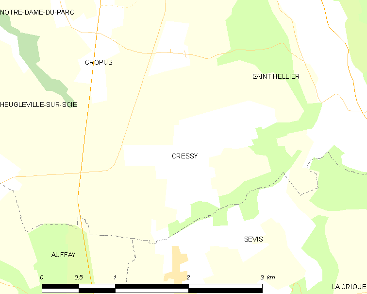 Map of French municipality Cressy